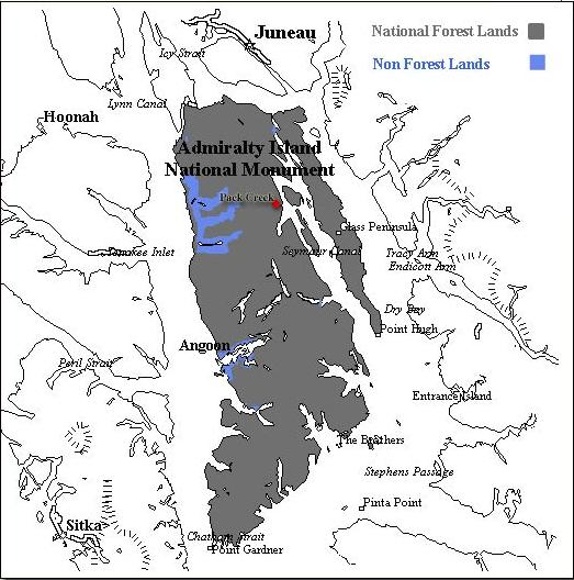 Map of Admiralty Island National Monument in Tongass National Forest, Alaska